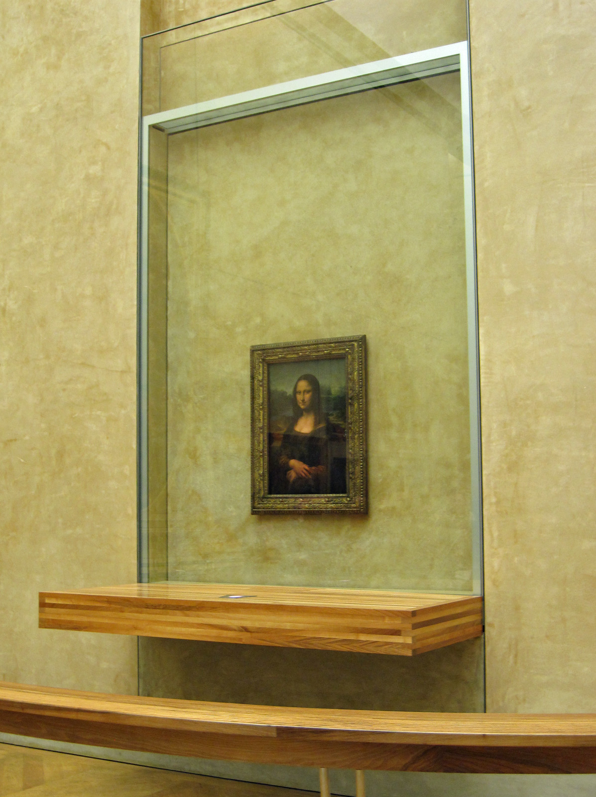 The famous Leonardo da Vinci masterpiece, Mona Lisa (known to French speakers as La Joconde), is the most popular painting at the Louvre. And indeed the gallery is packed with her admirers. So much so that she needs to be kept behind protective glass. Somehow I got a few seconds of clear view to snap this shot.